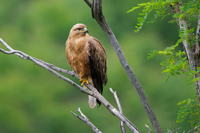 Long-legged Buzzard, female